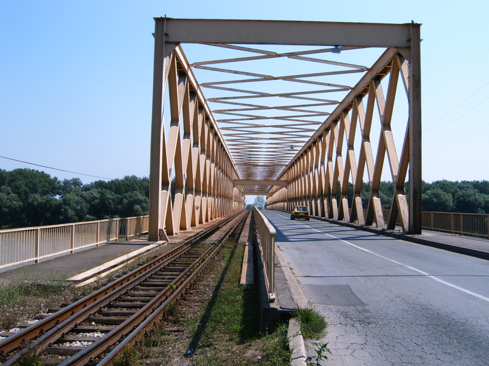 Bridge over river Tisza at Senta.